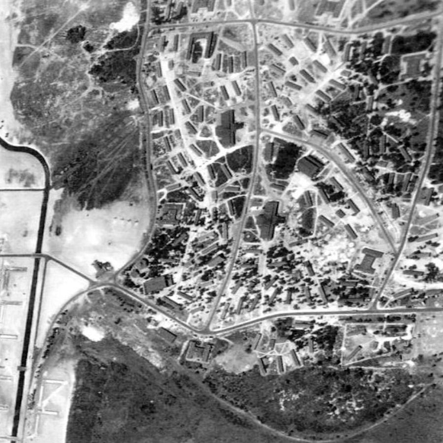 Boca Raton Army Airfield - Station - 1947